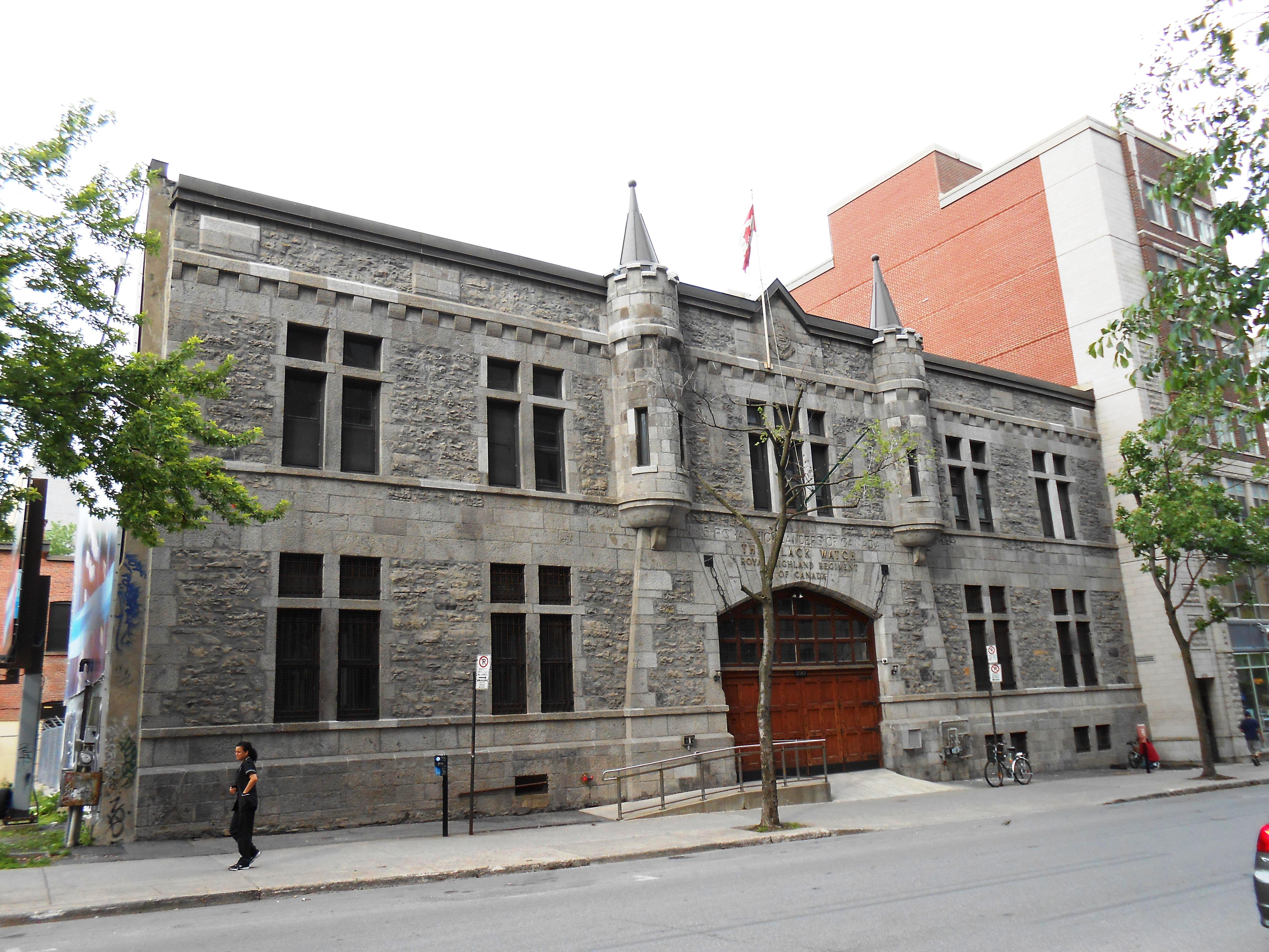 Armoury of the Black Watch of Canada, 2067, Bleury Street, Montreal